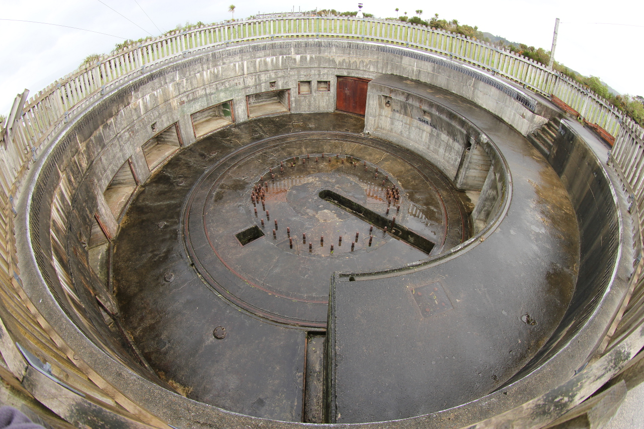 A expansive view of the Wright's Hill Gun Emplacement in Karori, taken using a fisheye lense August 2013.